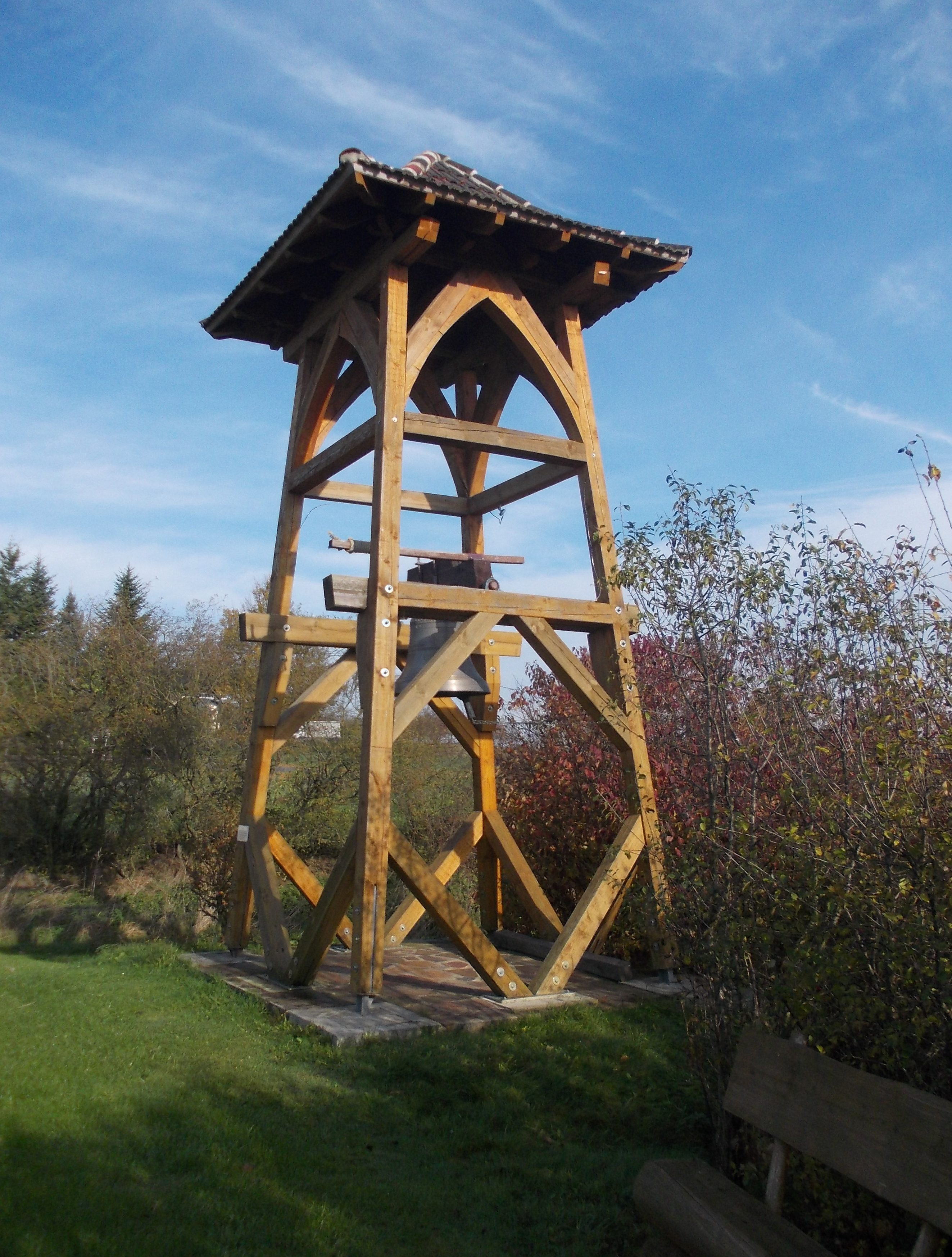 Bell tower in Zschetzsch (Colditz, Leipzig district, Saxony)